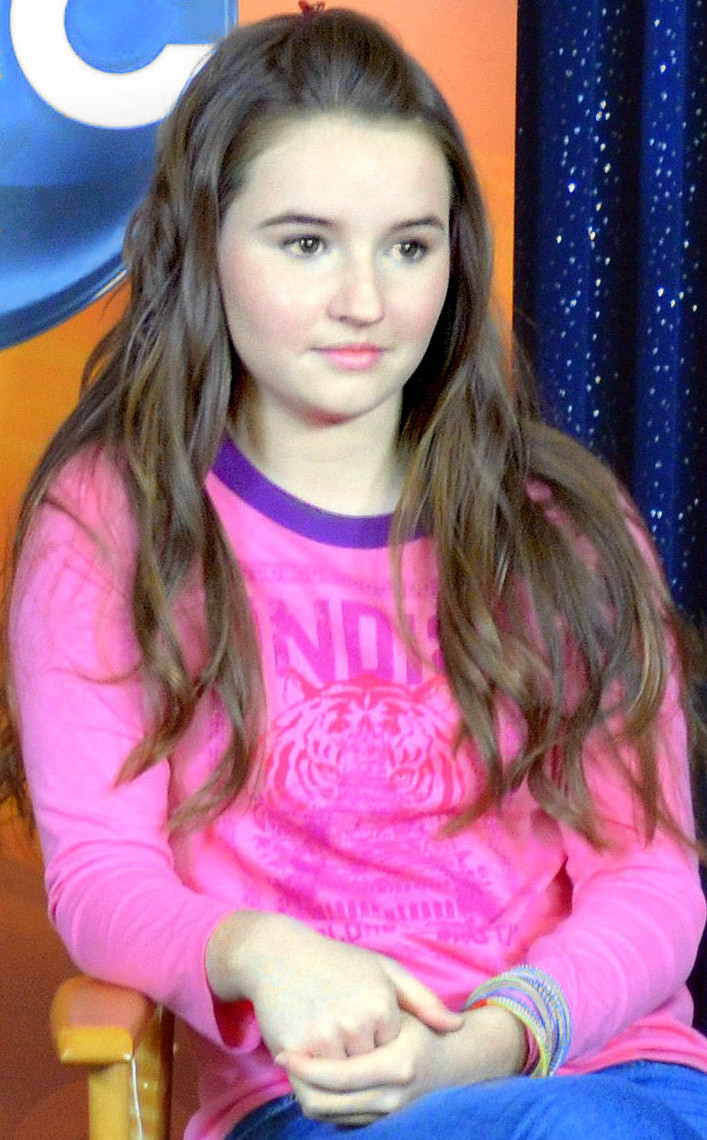 Actress Kaitlyn Dever on the set of ABC's Last Man Standing in 2012.